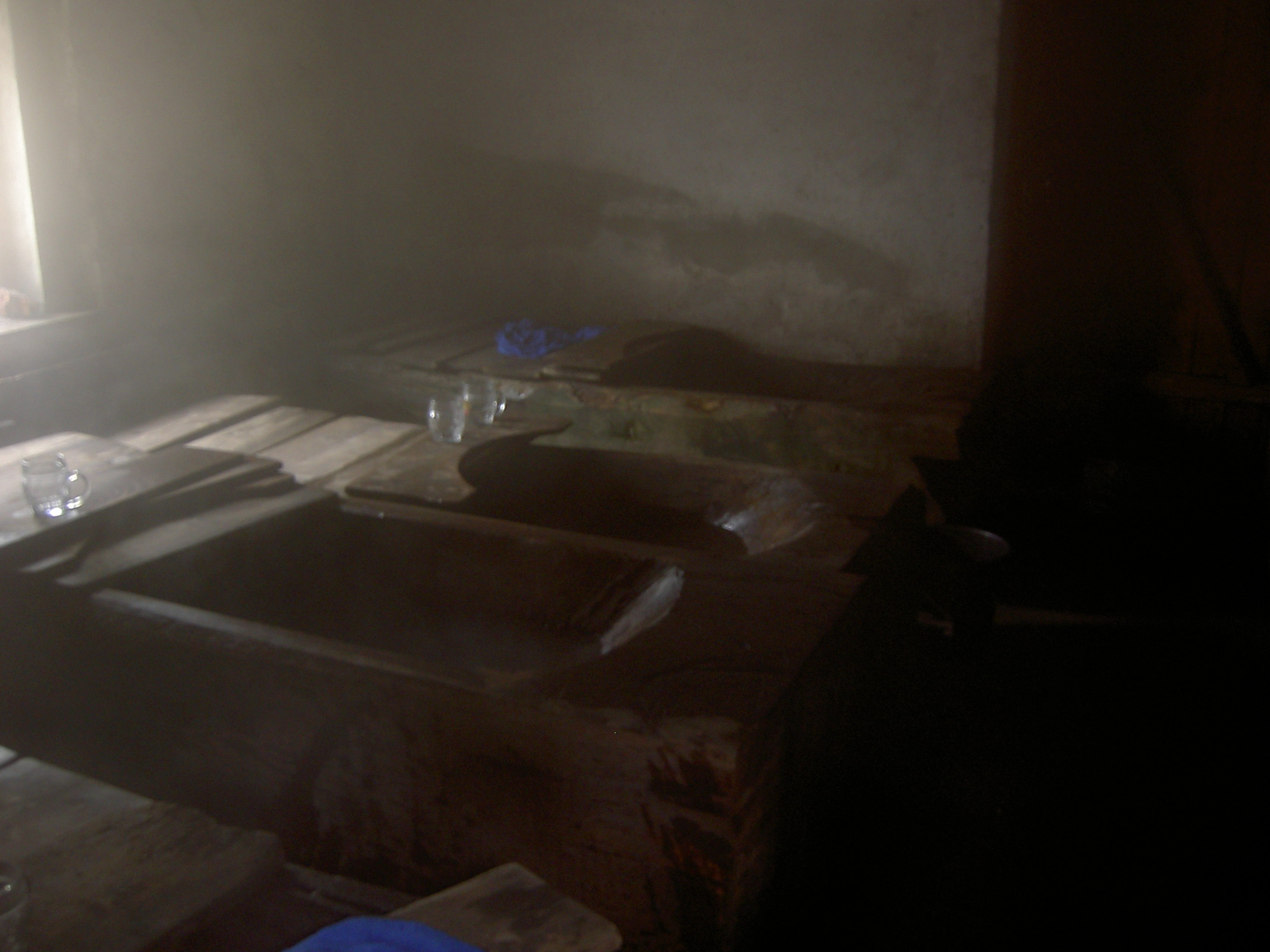 Bath tubs in an old farmers spa still in use near Innerkrems in the Nockberge mountain range, district Spittal an der Drau / Carinthia / Austria / EU.